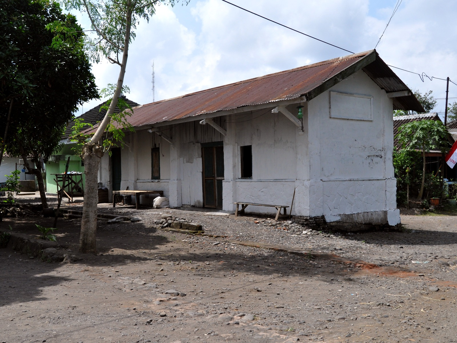 Ex Sukodono train station in Lumajang, East Java, Indonesia. Now it's becoming a house.